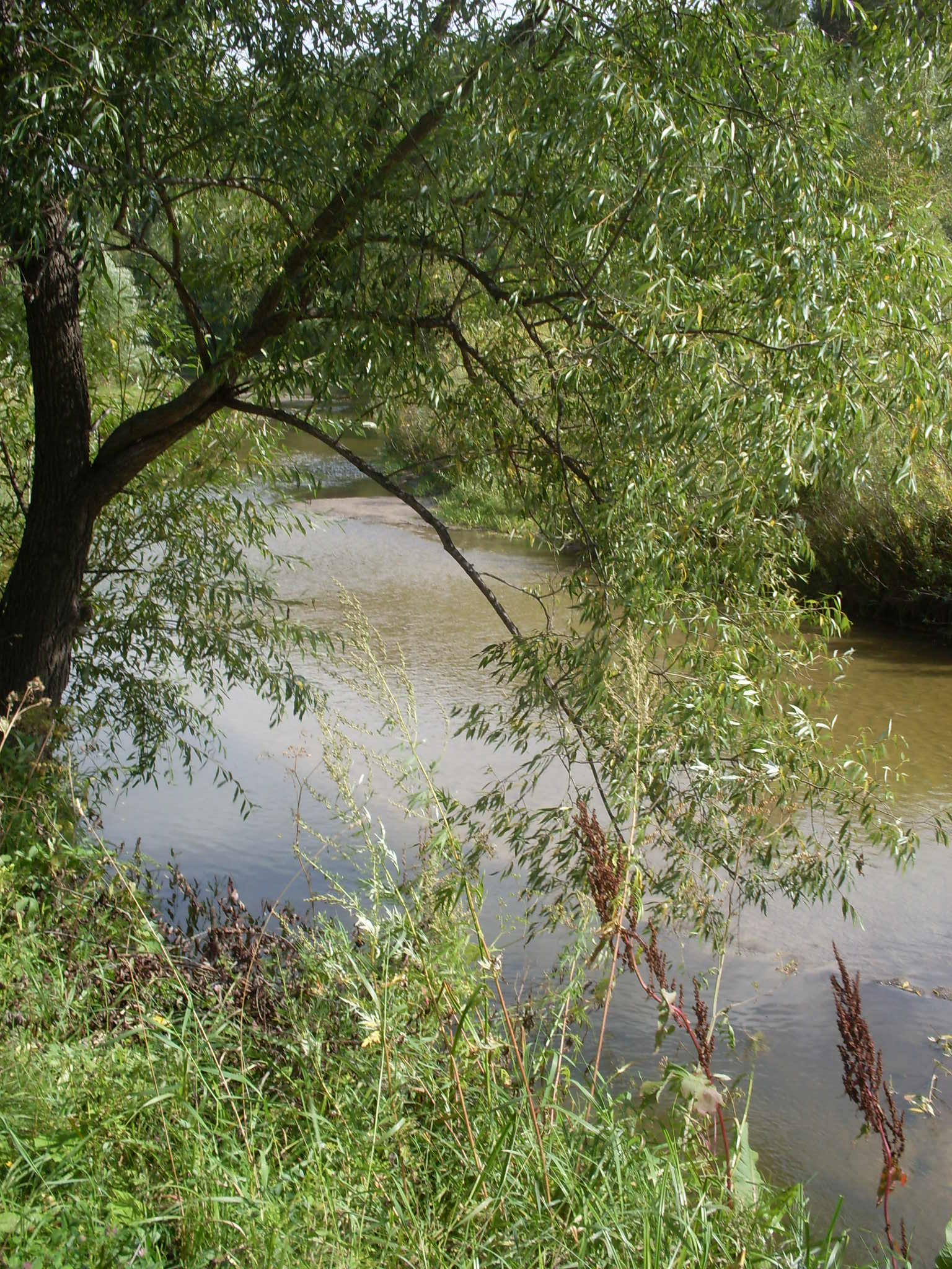 Barnaulka river